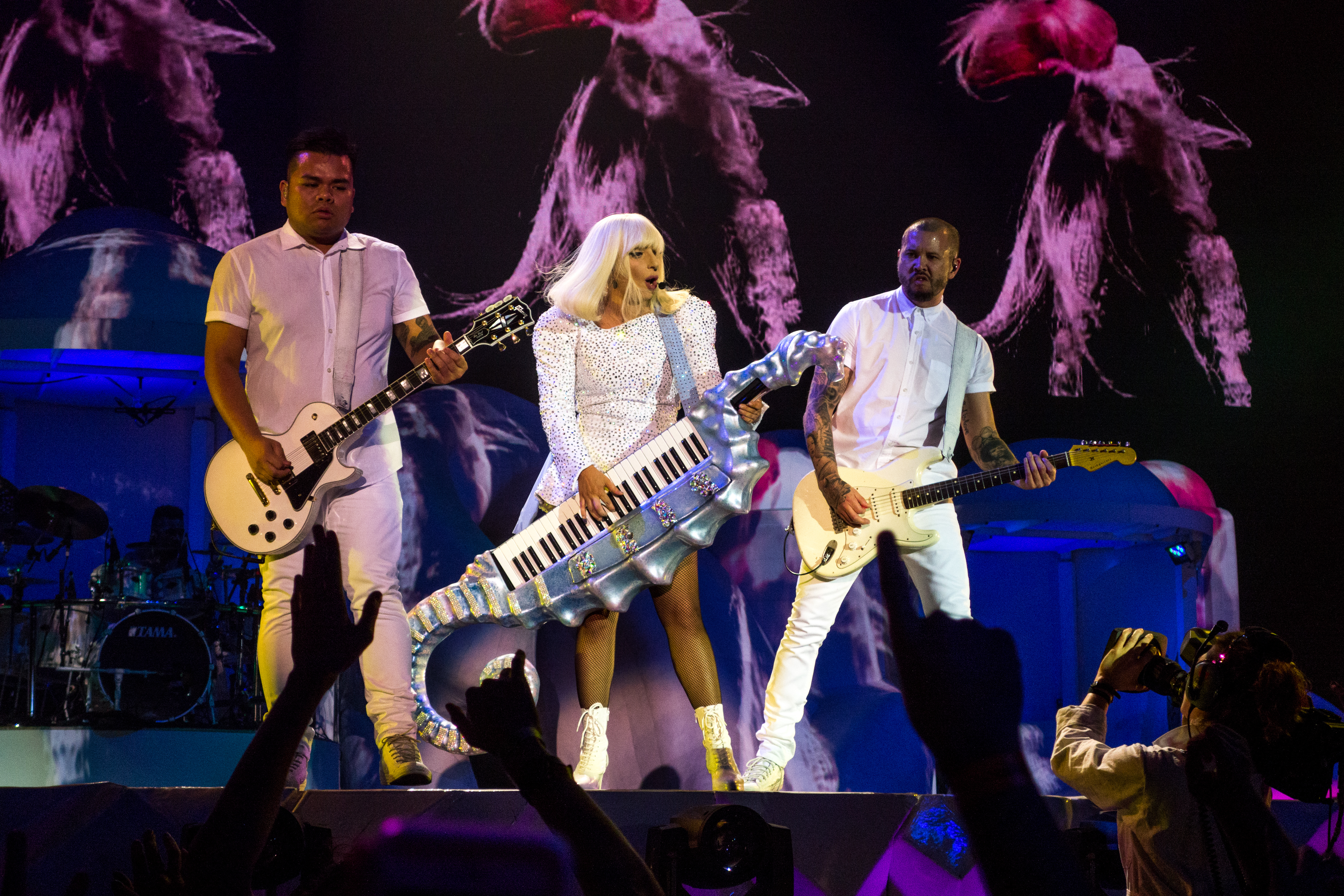 Lady Gaga performing "Just Dance" during Artrave: The Artpop Ball in Perth